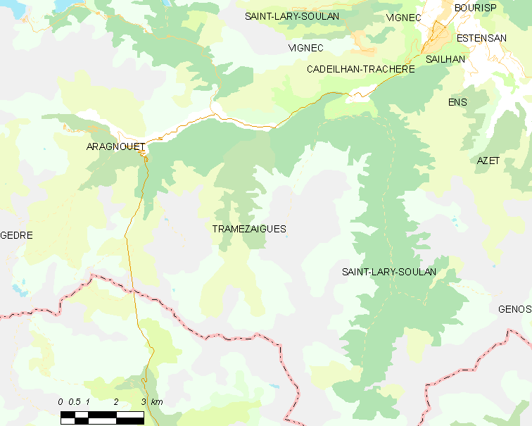 Map of French municipality